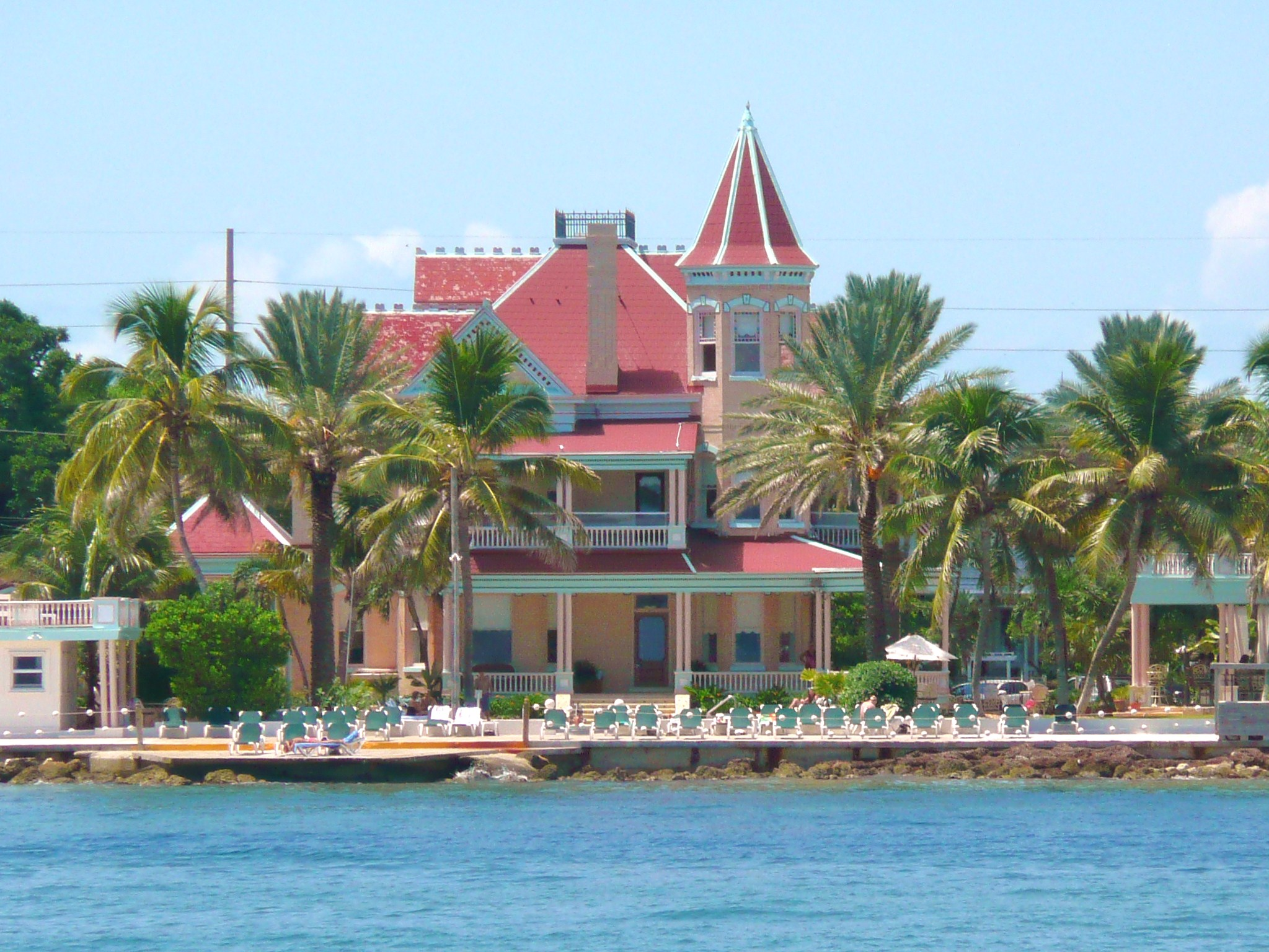 Digital photo taken by Marc Averette. The Southernmost House in Key West, Florida as seen from the Atlantic Ocean